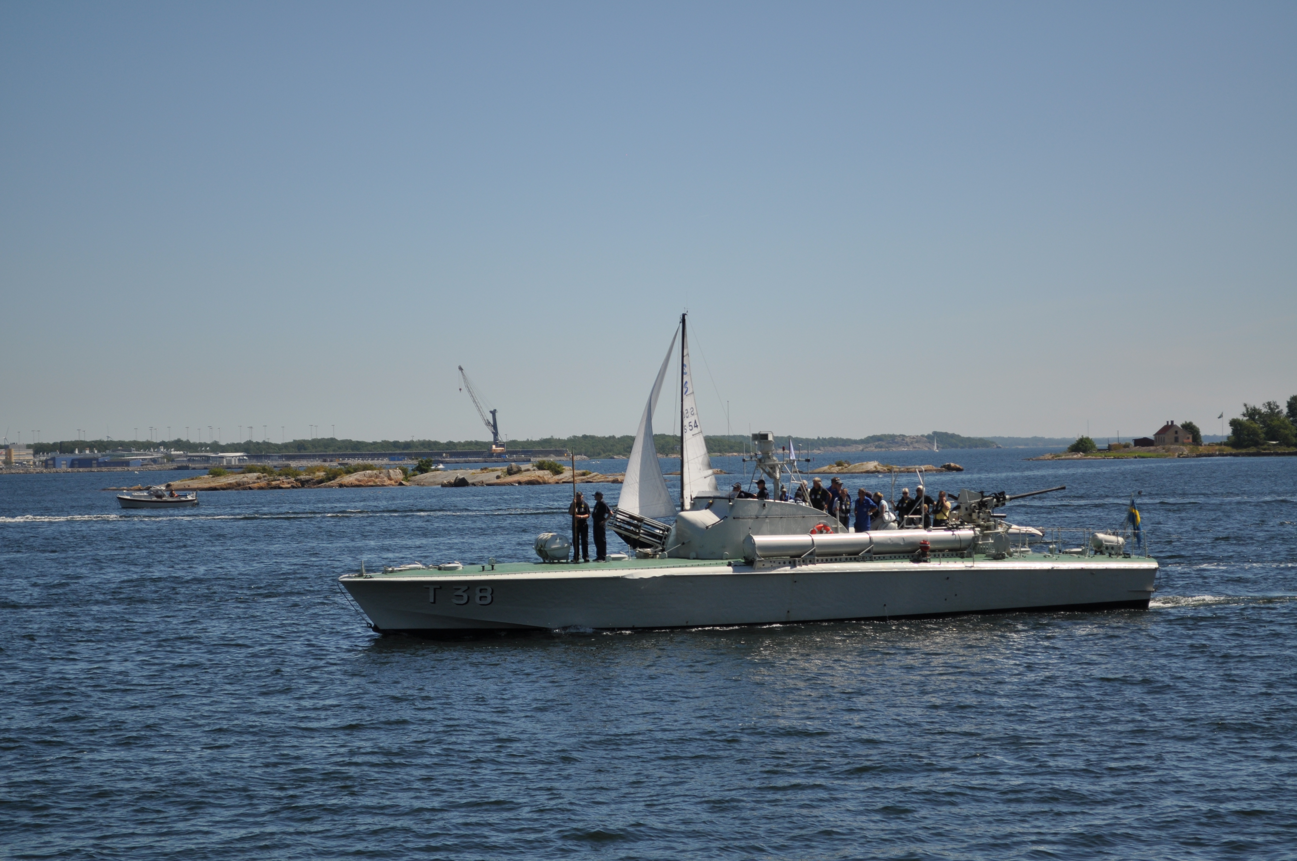 The Swedish torpedo boat T-38.